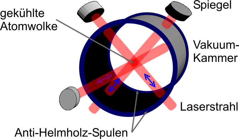 An experimental setup of a magneto-optical trap